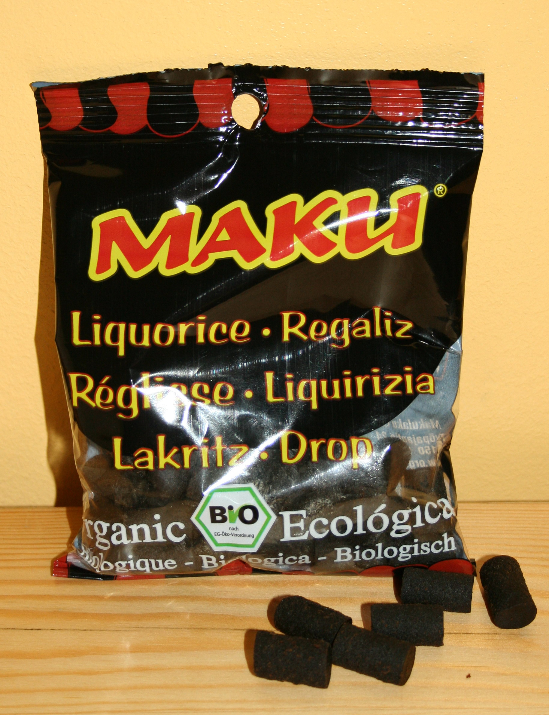 Makulaku Organic Liquorice pieces and package.